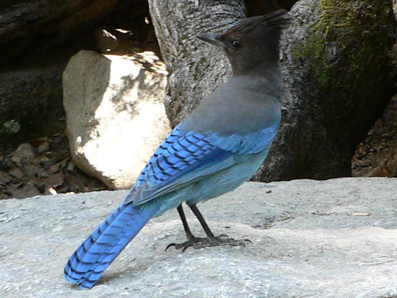 Steller's Jay